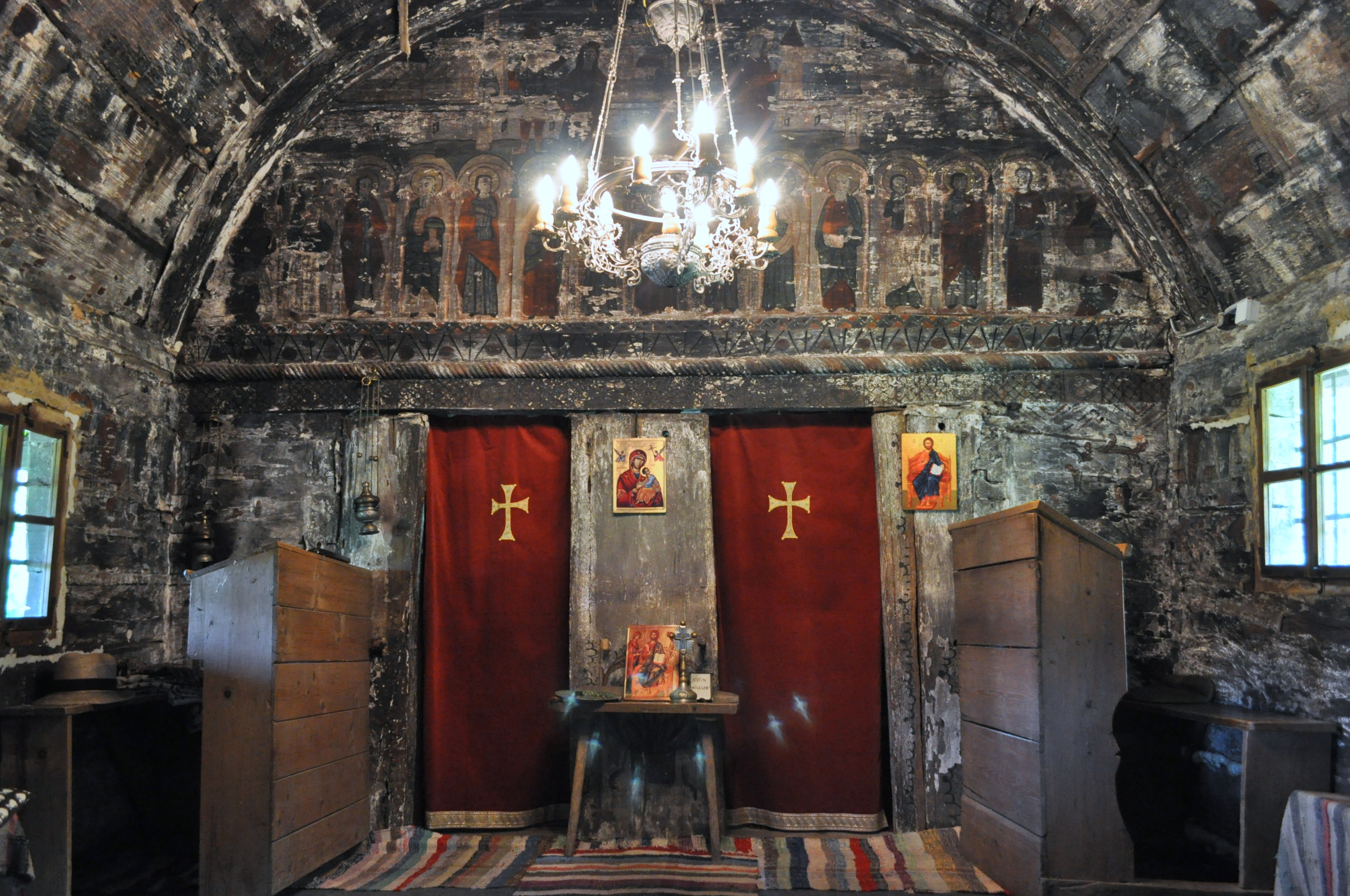 Wooden church in Cremenea, Cluj countyRomână: Biserica de lemn din Cremenea, județul Cluj